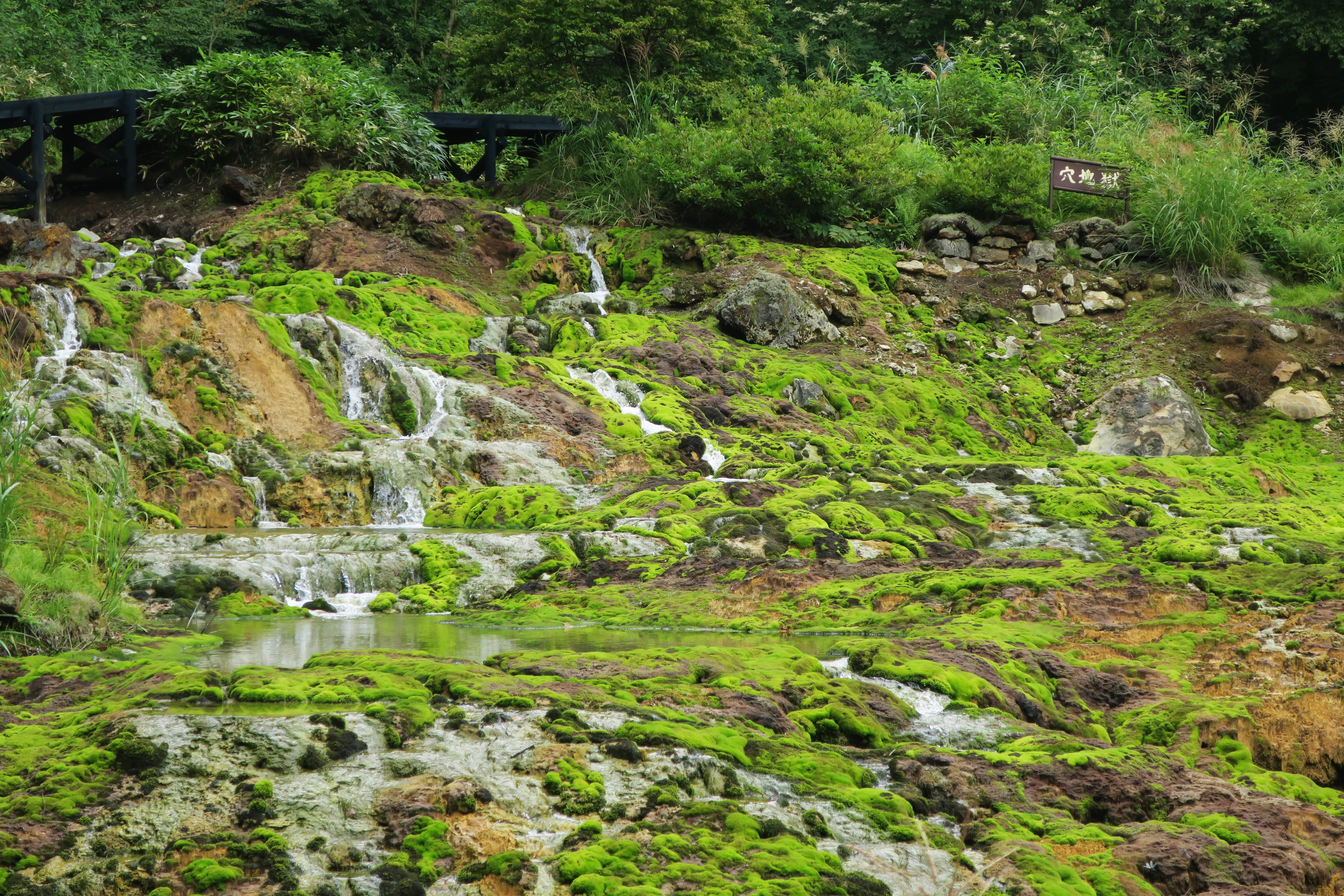 Chatsubomigoke Park.